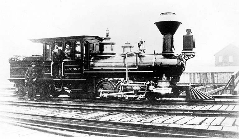 A.A. Denny, Seattle's first steam locomotive, ca. 1890. It operated on the so-called Seattle and Walla Walla Railroad, which never got anywhere near Walla Walla. Photographer: Unknown Subjects (LCSH): A.A. Denny (Steam locomotive) Steam locomotives--Washington (State)--Seattle Locomotive engineers--Washington (State)--Seattle Digital Collection: Seattle Photograph Collection Item Number: SEA1470 Persistent URL: Visit Special Collections page for information on ordering a copy. University of Washington Libraries. Digital Collections